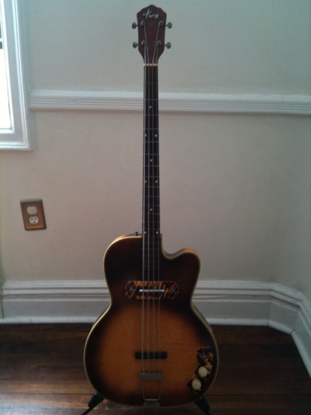 early 50s Kay K-162 Electronic Bass